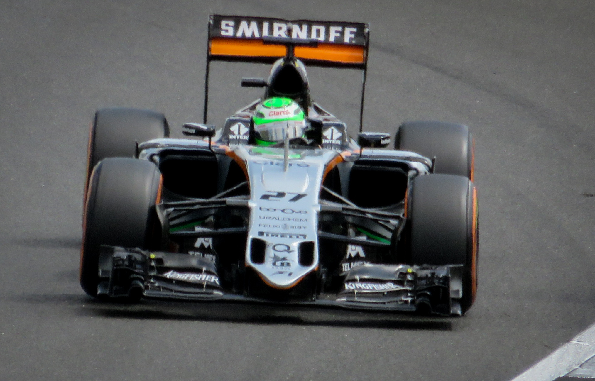 F1 - Force India - Nico Hulkenburg